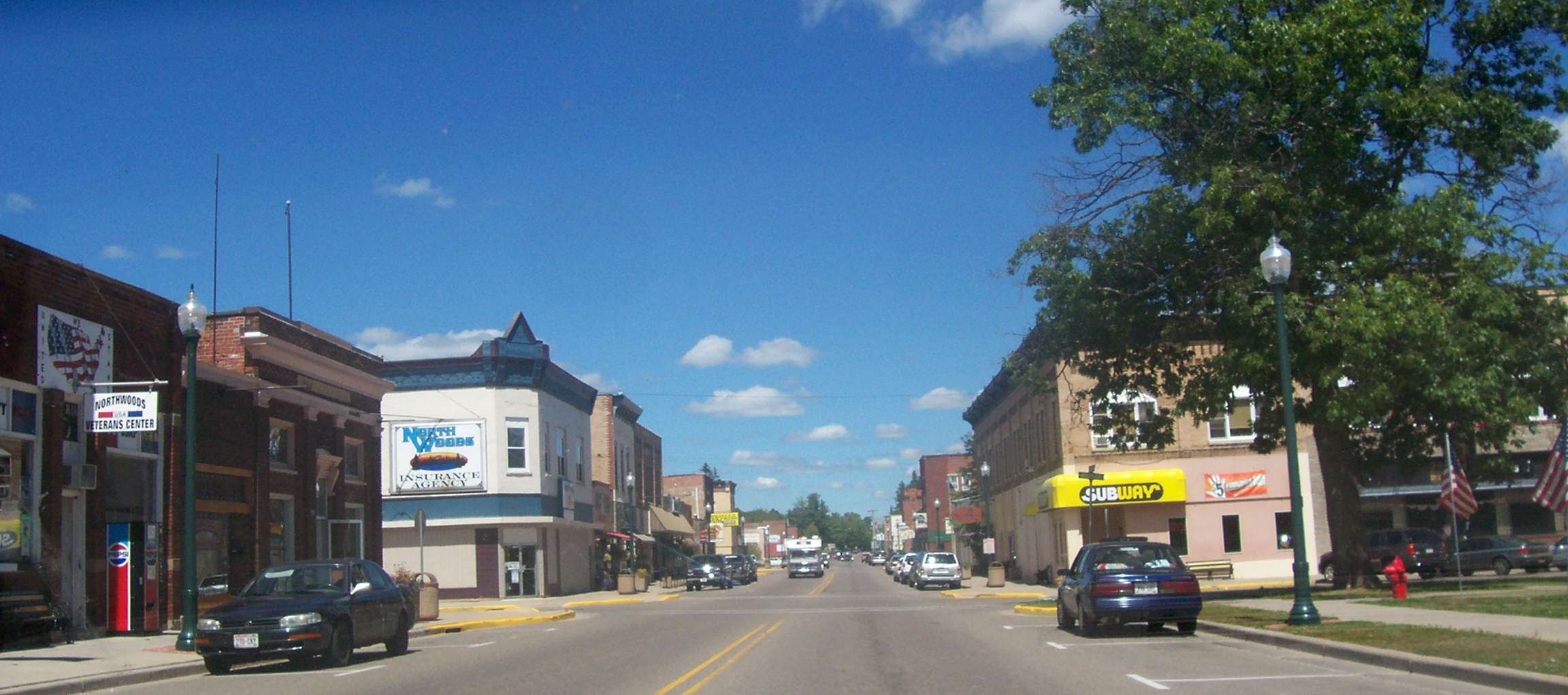 Looking north at downtown Crandon, Wisconsin, on U.S. Route 8 / Wisconsin Highway 32 / Wisconsin Highway 55. The Forest County courthouse is found directly to the right of this image.